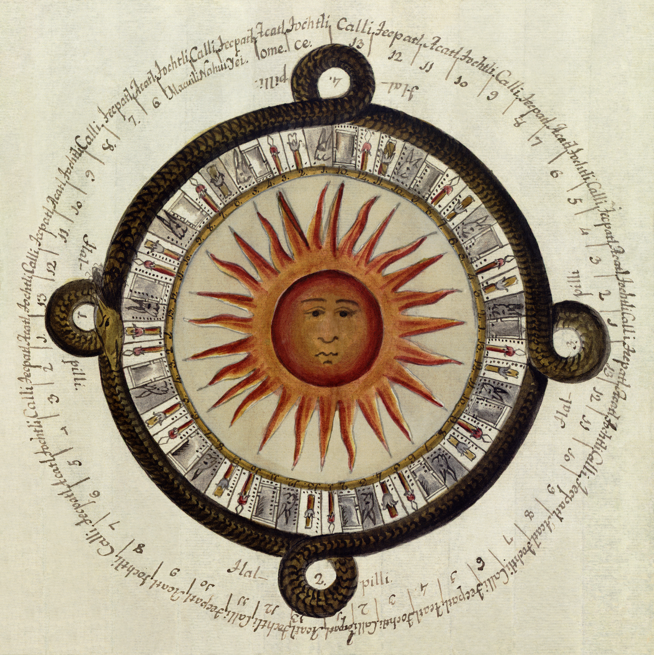 First drawing in the book "Descripción histórica y cronológica de las dos piedras que con ocasión del nuevo empedrado que se está formando en la plaza principal de México, se hallaron en ella el año de 1790"(or "Historical and chronological description of the two stones found during the new paving of the Mexico's main plaza." in English ) by Antonio de Leon y Gama (1792). The book describes Aztec calendars and specifically the discovery of the Aztec calendar stone in México. The image depicts an aztec sun calendar.